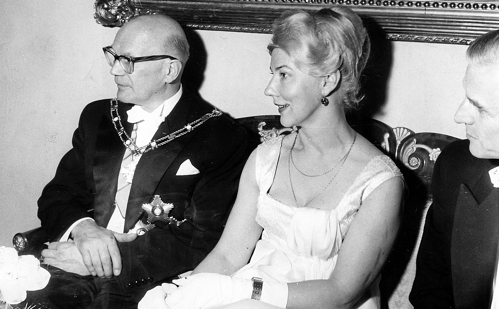 Photograph of Finland’s President Urho Kekkonen and the writer Eeva Joenpelto (1921–2004).